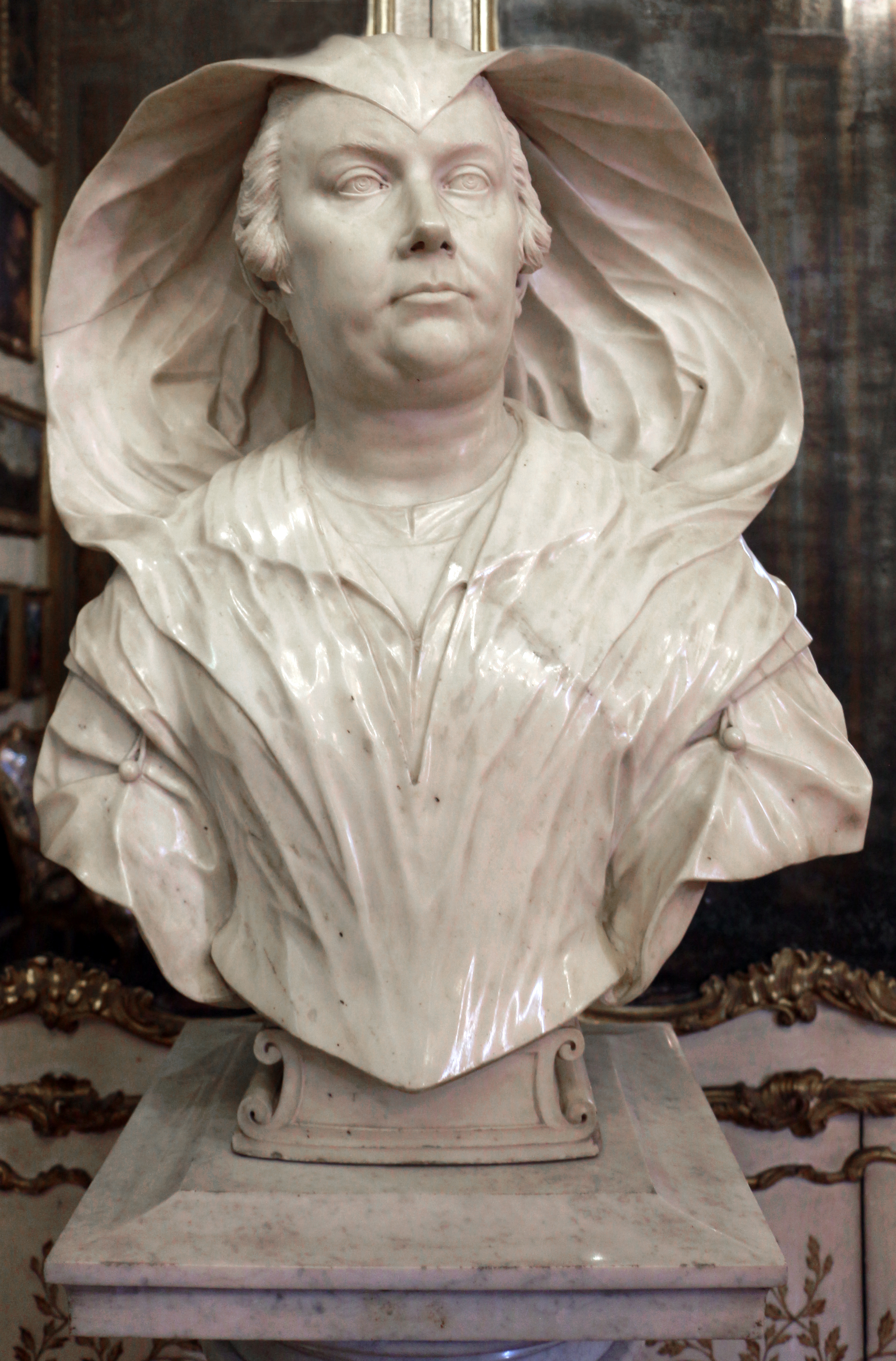 Sculptures in the Galleria Doria Pamphilj (Rome)